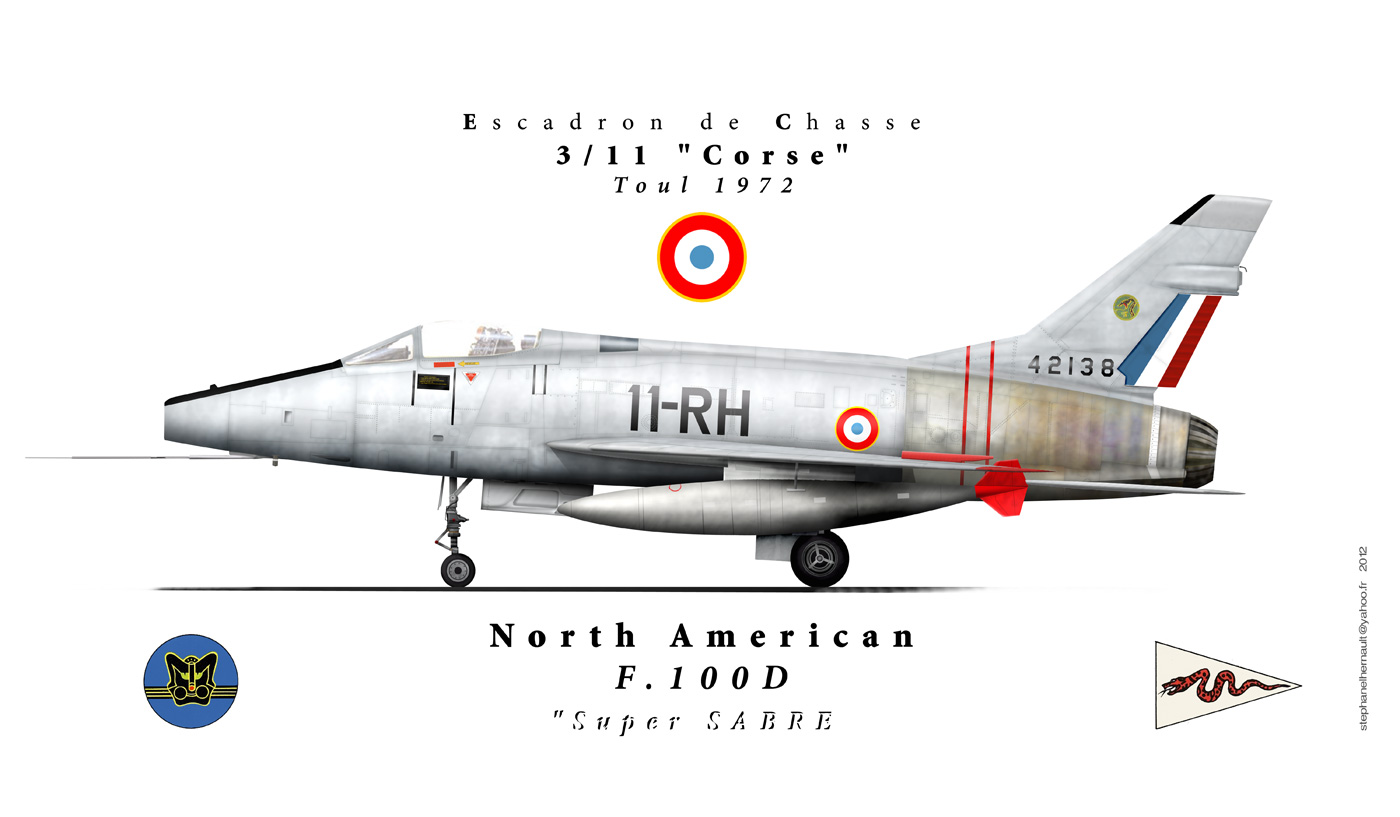 North American F-100D, French Air Force, 3/11 "Corse".